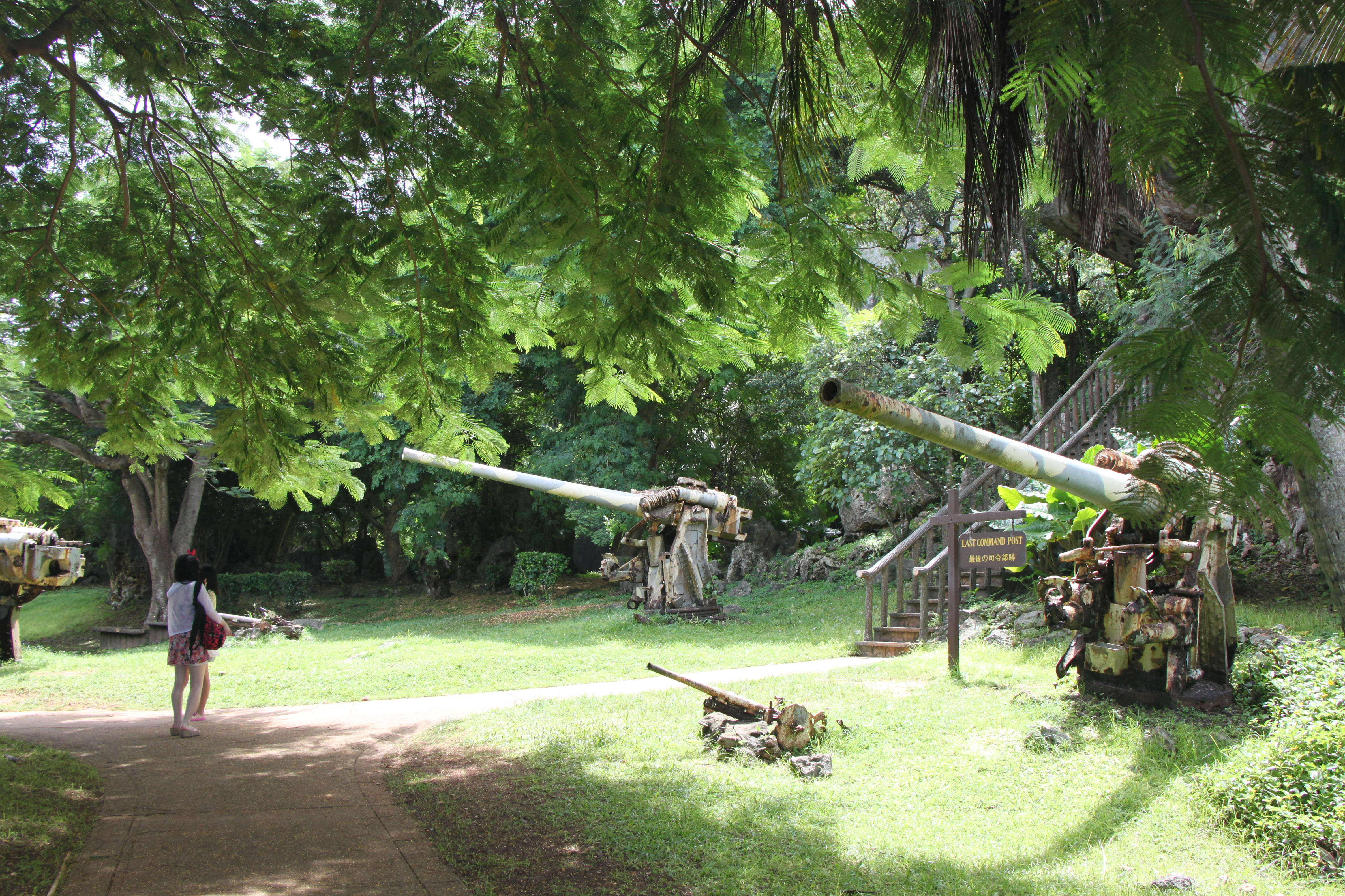 last command post-Saipan